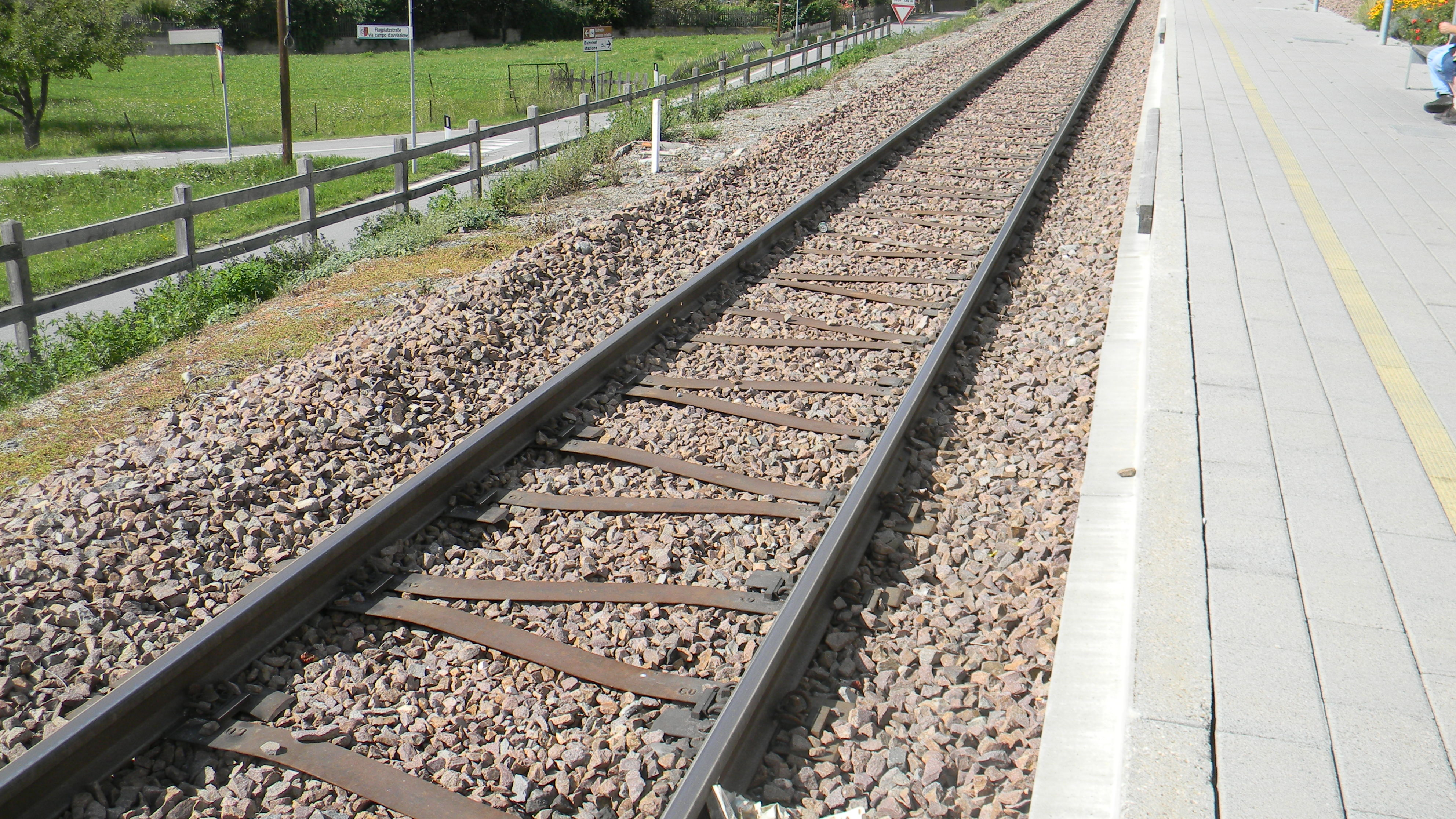 Vinschgau Railway: rails in Sluderno/Schluderns station.